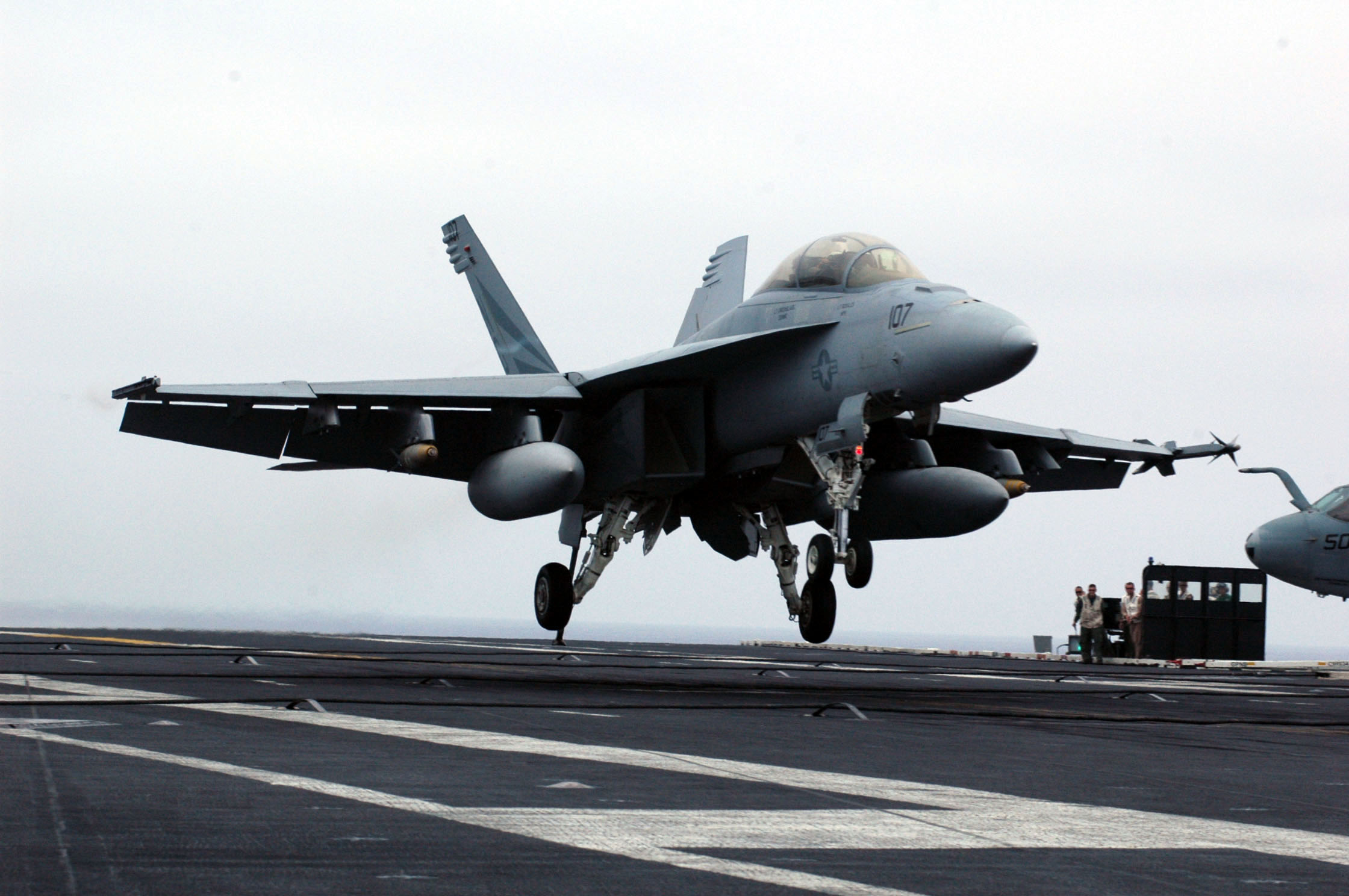 Pacific Ocean (June 22, 2006) - An F/A-18F Super Hornet assigned to the "Black Knights" of Strike Fighter Squadron One Five Four (VFA-154) makes an arrested landing on the flight deck aboard the Nimitz-class aircraft carrier USS John C. Stennis (CVN 74). Stennis and embarked Carrier Air Wing Nine (CVW-9) are currently underway conducting Tailored Ship's Training Availability (TSTA). U.S. Navy photo by Photographer's Mate 1st Class Johnnie Robbins (RELEASED)